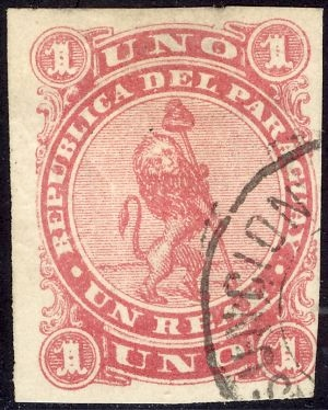 1st series of stamps of Paraguay